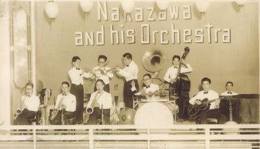 Nakazawa & His Orchestra